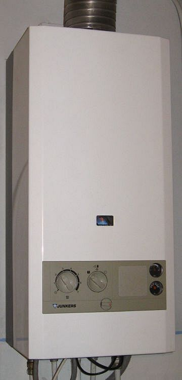 Junkers Novatherm wall-mounted boiler.